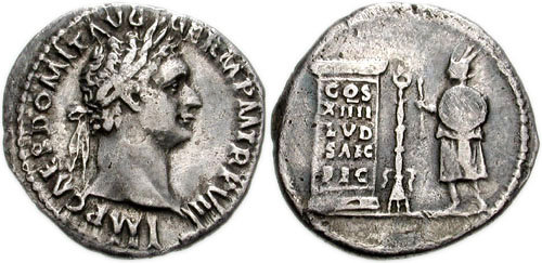 DOMITIAN. 81-96 AD. AR Denarius (19mm, 3.15 g). Struck 88 AD. Laureate head right Inscribed column, candelabrum, and herald standing left with feathered cap, round shield, and wand. RIC II 116; BMCRE 135; RSC 73. Struck to commemorate the Ludi Saeculares of 88 AD. From the Tony Hardy Collection.